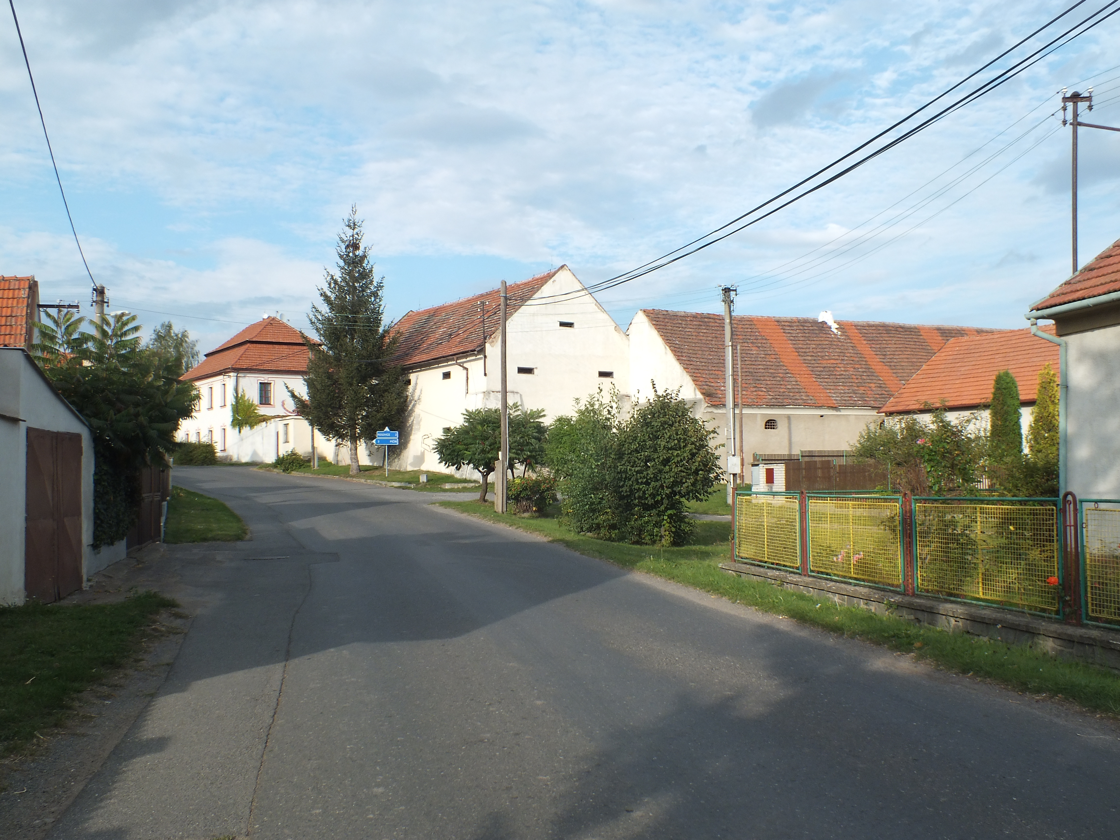 The farmhouse No. 1 in Kotenčice